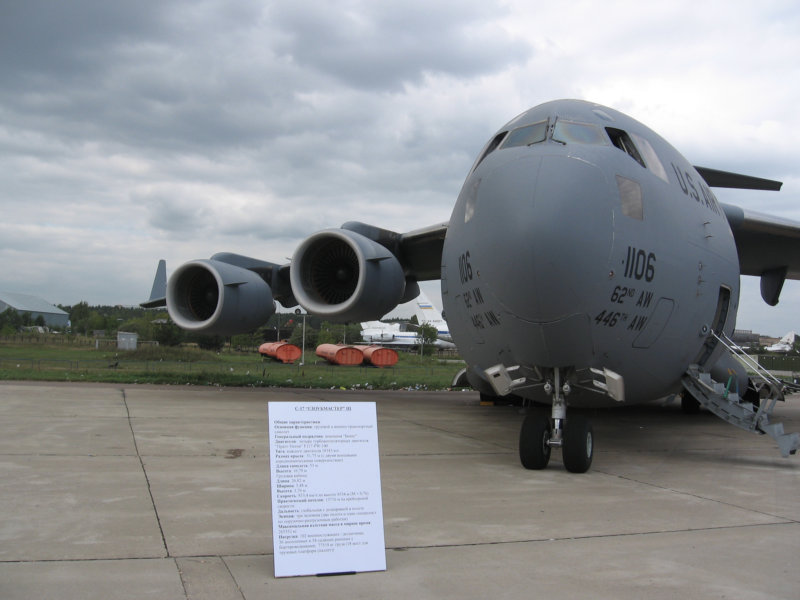 McDonnell Douglas C-17 Globemaster III at MAKS-2007